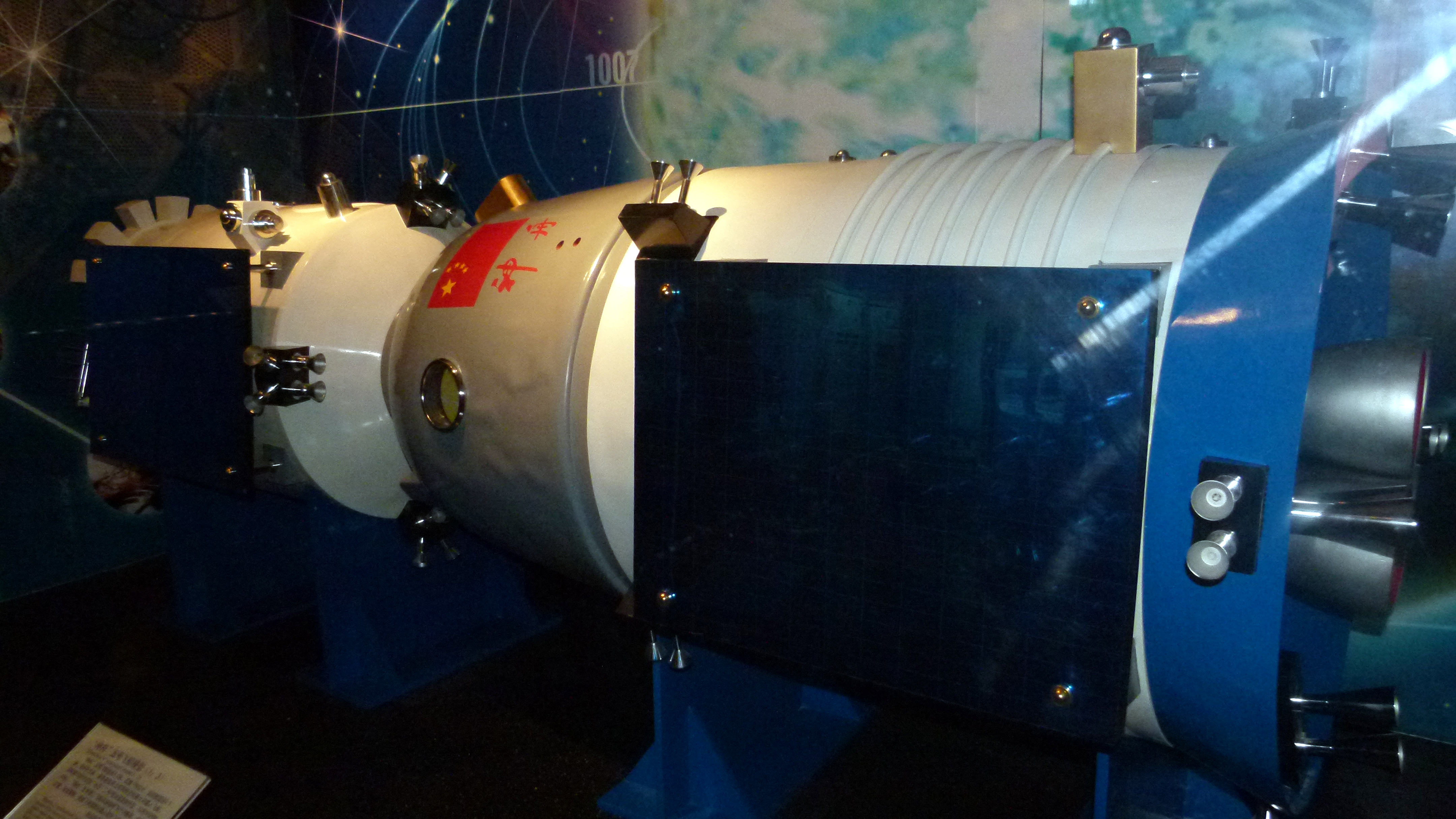 Chinese Shenzhou 5 spacecraft - Model 1:3, Space technology exhibition, Hohhot, Inner Mongolia